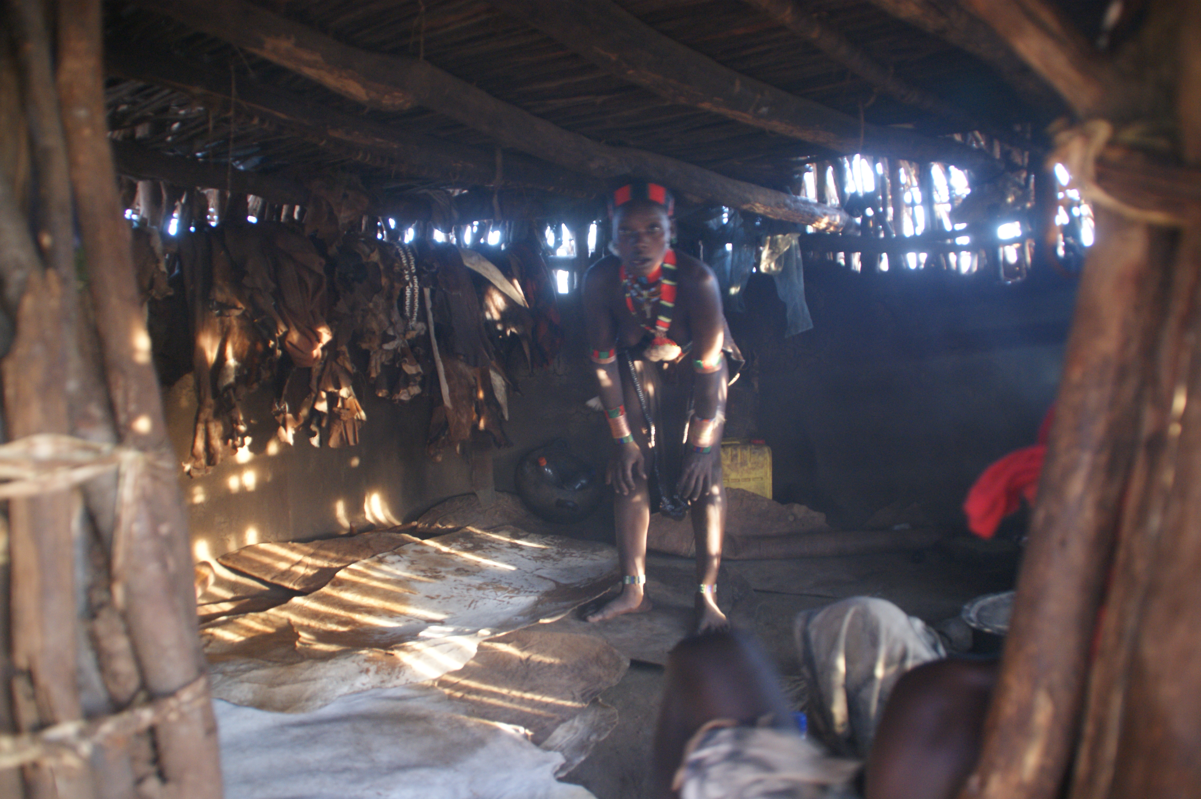 Hamar hut interior